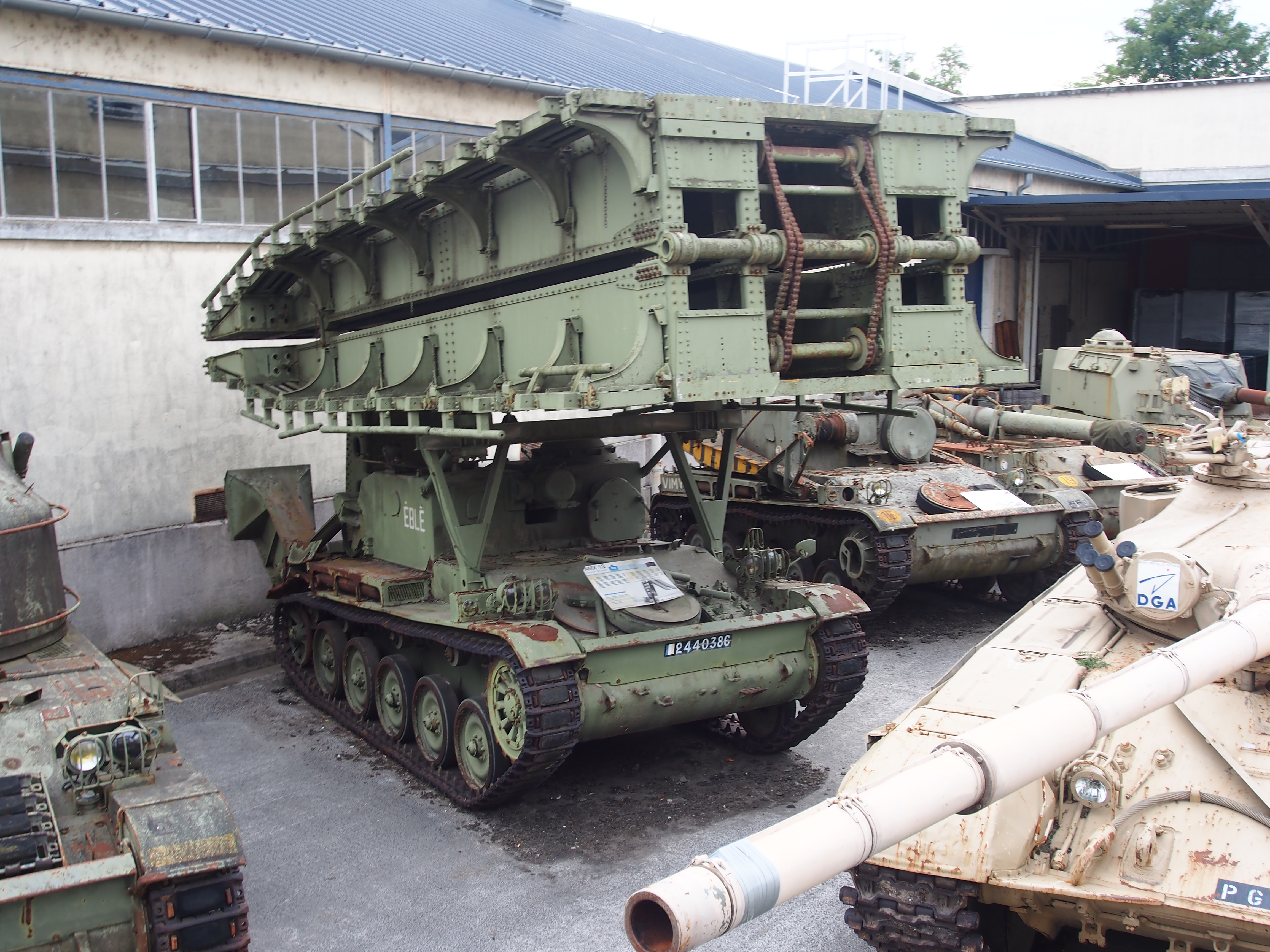 Photographed in the Musée des Blindés, France.